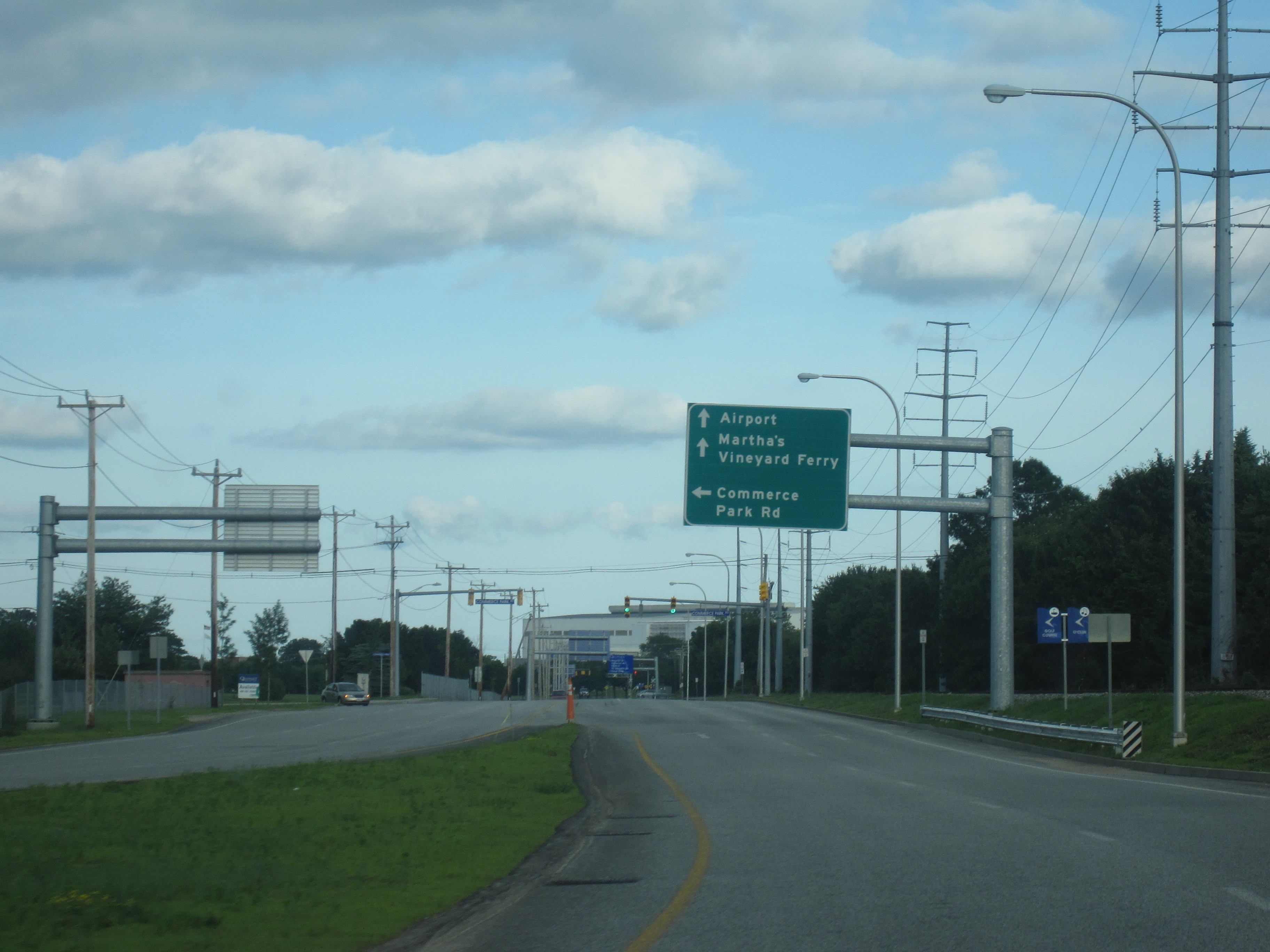 Eastern terminus of Rhode Island Route 403 at an at-grade intersection with Commerce Park Way and Roger Williams Way in Quonset, Rhode Island